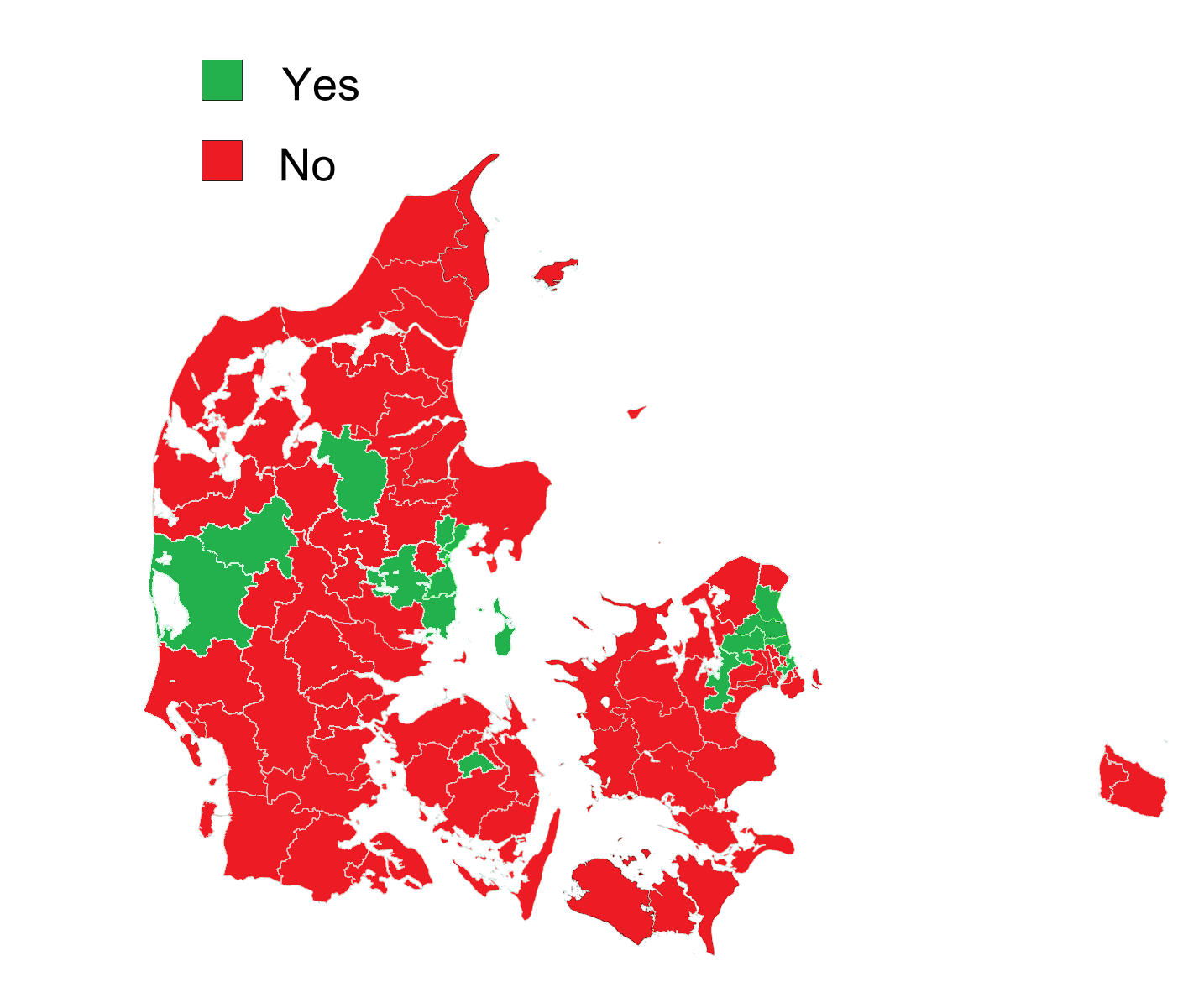 Danish European Union opt-out referendum result by district